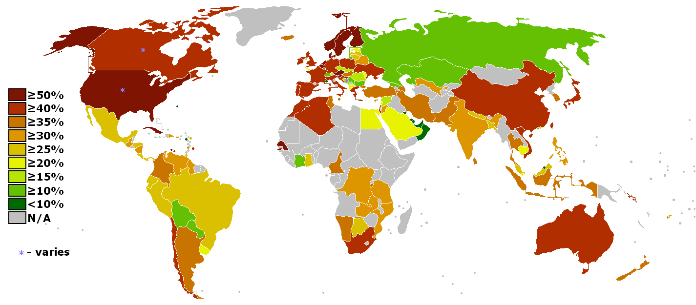 Tax rates around the world: Individual income tax rate (the highest rate) by countries